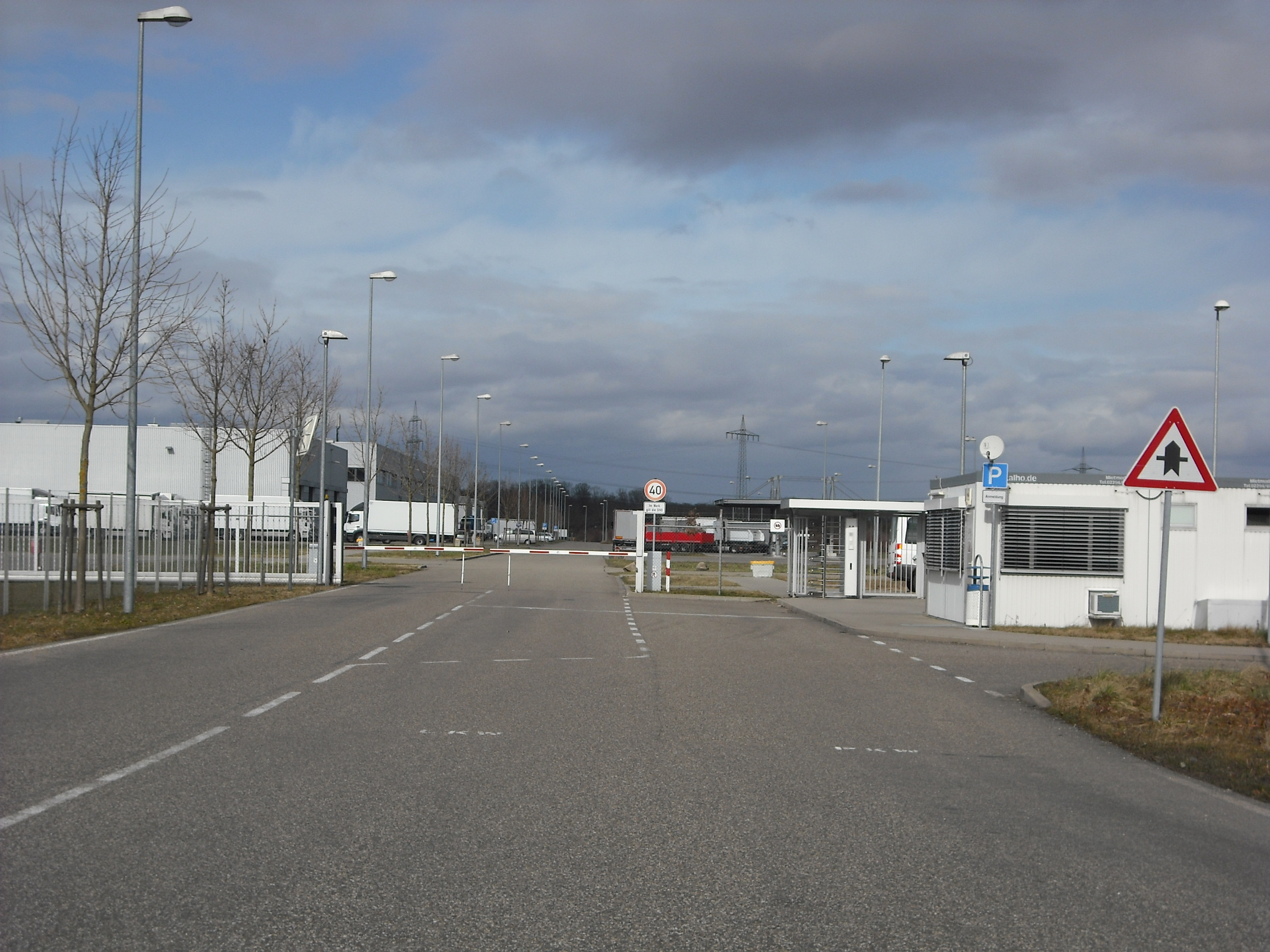 Woerth Daimler plant